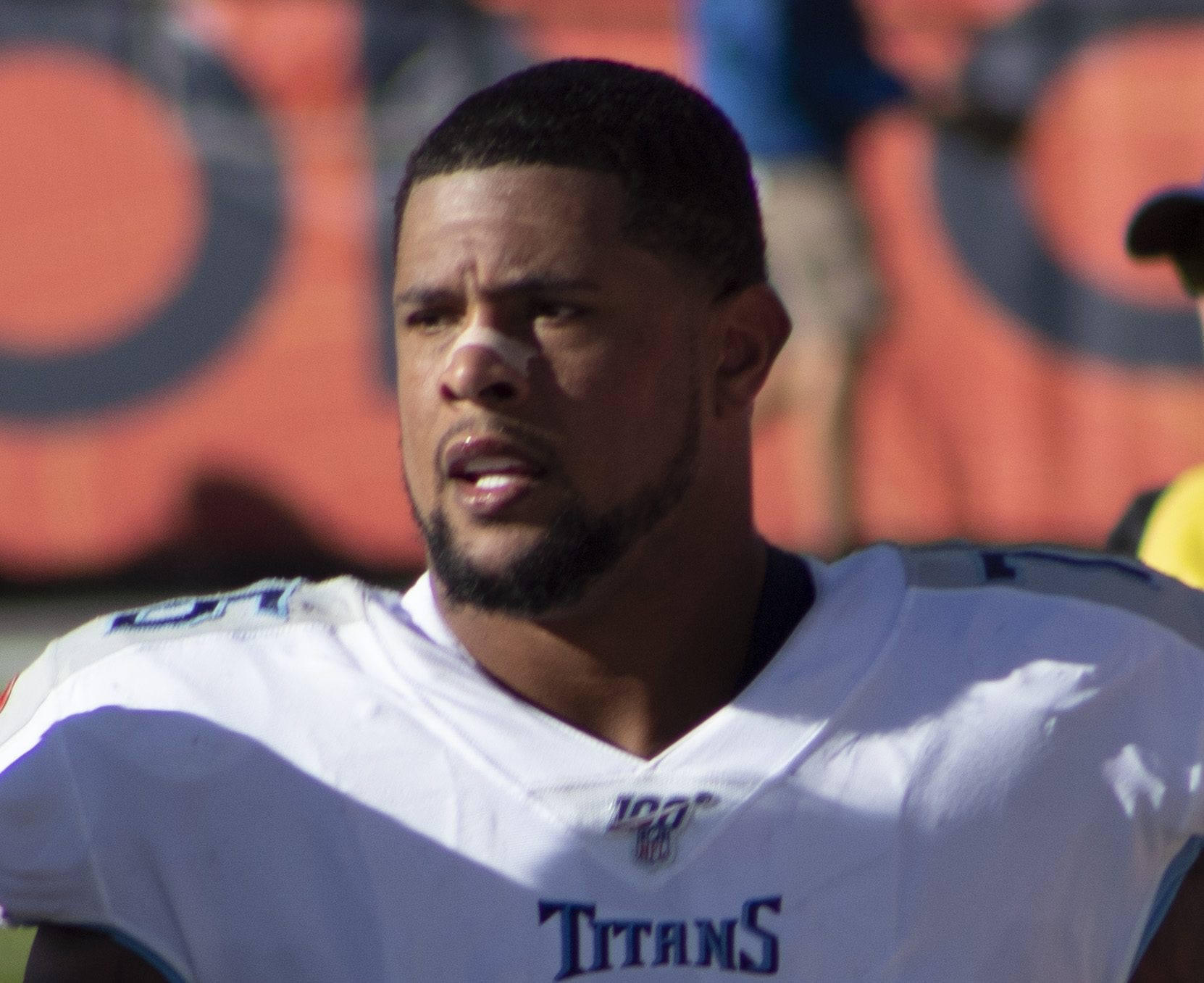 Rodger Saffold with the Tennessee Titans on October 13, 2019